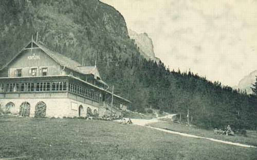 Mountain shelter "Chata Kamzík" in slovak High Tatras